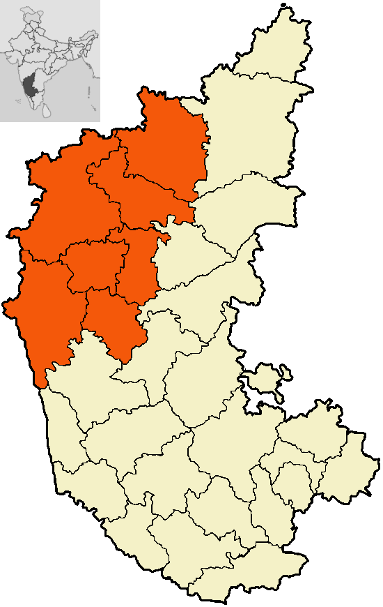 Locator map of Belgaum division, Karnataka, India